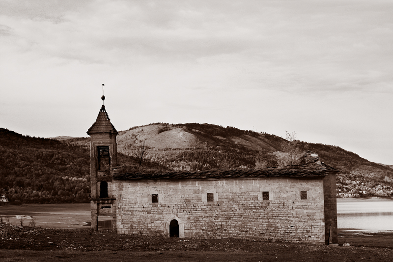 Church in the village of Mavrovo, Republic of Macedonia.